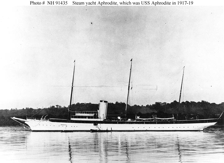 Civilian steam yacht SS Aphrodite prior to her United States Navy service as patrol vessel USS Aphrodite (SP-135)